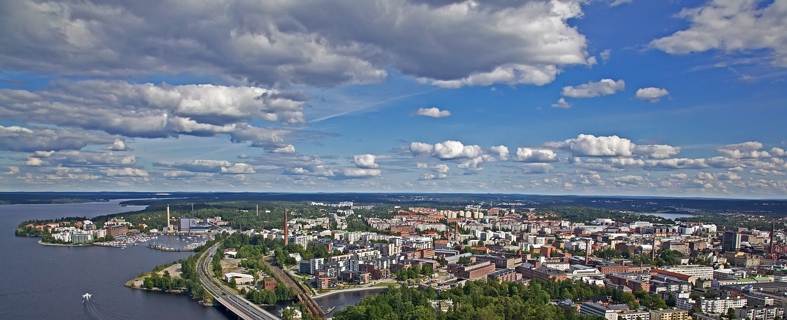 View to Tampere town, Finland from Näsinneula observation tower. City center at right-down along the river.